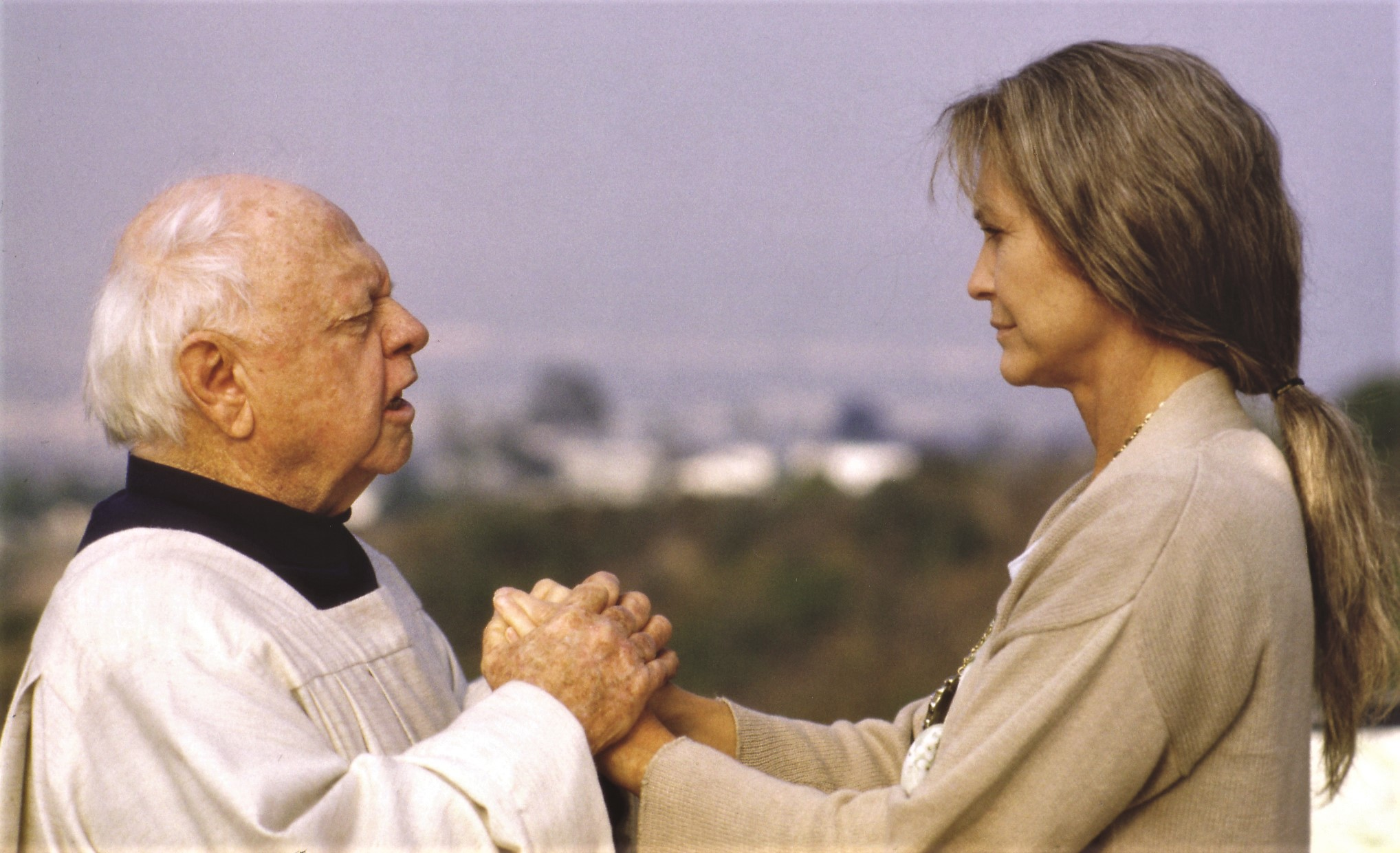 ILLUSION INFINITY (2004), Dee Wallace & Mickey Rooney, as Patricia and guardian angel Simon, in Death Valley